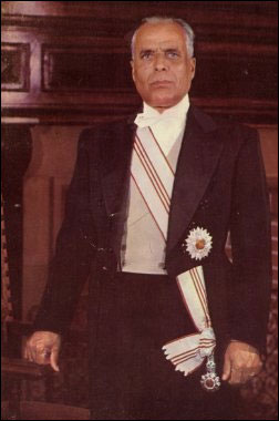 Official photo of Tunisian president Habib Bourguiba